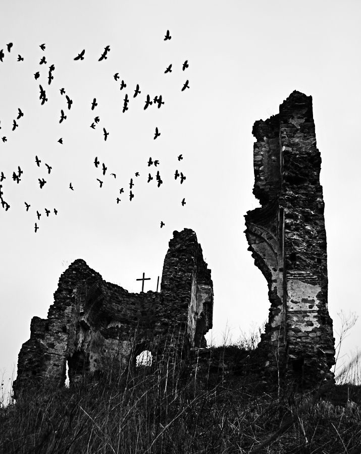 Archaeological site of Podoleni, Neamț county. Lateral view of the ruins of the "St. Paraschive" church built by the logothete Dumitrașcu Ștefan, in 1630. The church functioned until 1832, when a flood of the nearby Bistrița river destroyed all the buildings.